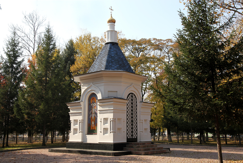 Chapel of the Reigning Icon of the Mother of God